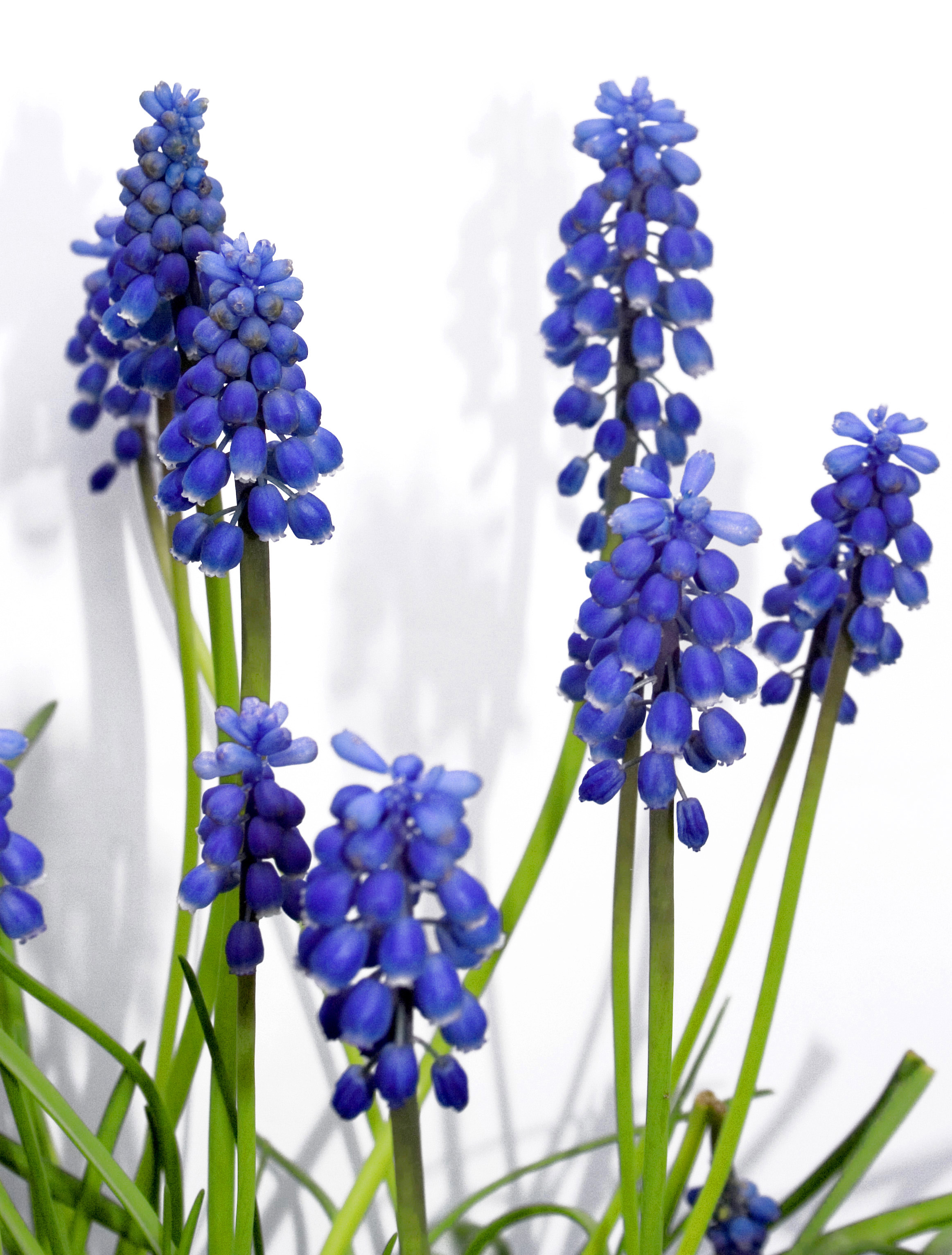 Muscari neglectum on white background